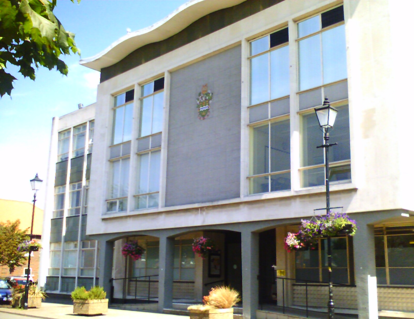 Gainsborough Guildhall. Photo by E Asterion u talking to me?